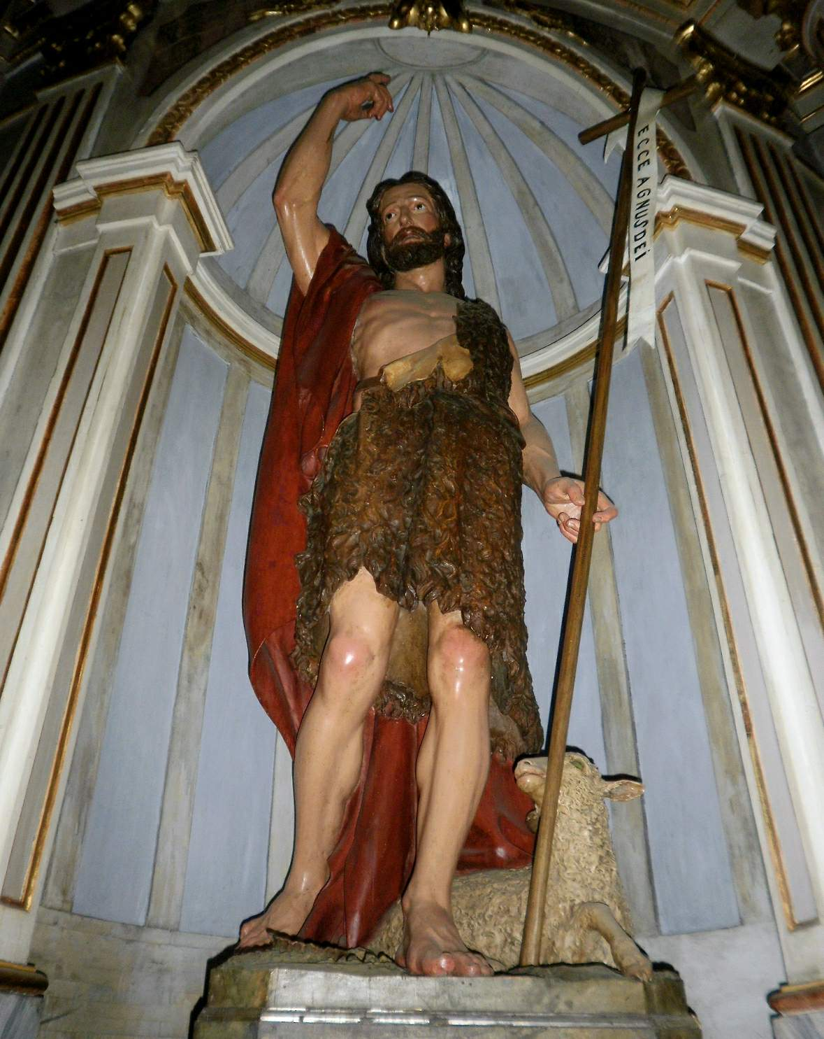 Talla de San Juan Bautista, en la iglesia de Santa María de Bermeo (Vizcaya)